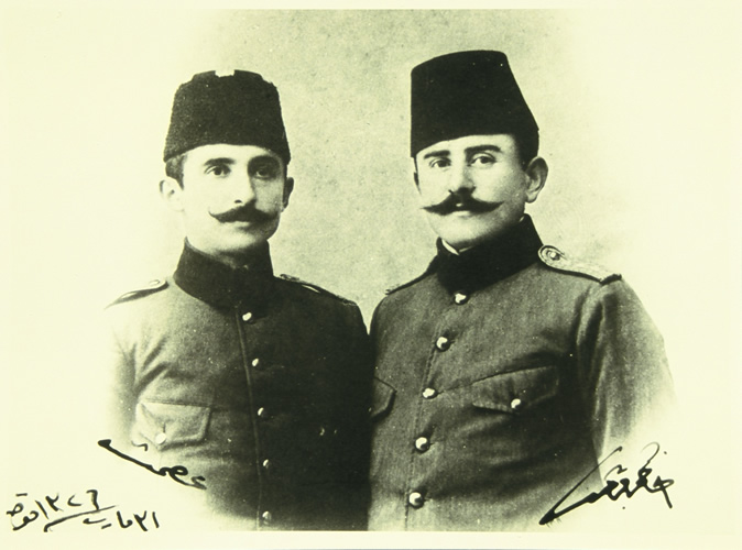 İsmet (İnönü) and Kiazim Zeyrek (Karabekir)